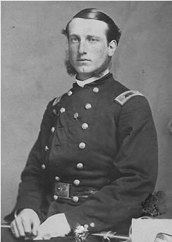 Mjr. James Cromwell 124th New York Infantry